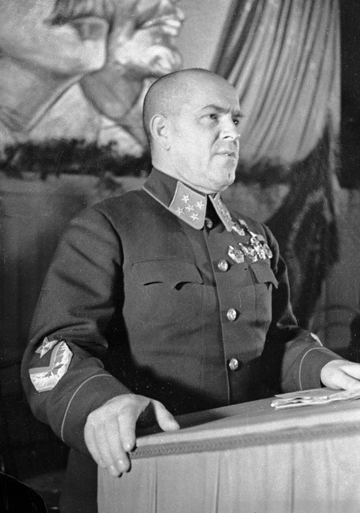 “Marshal Zhukov speaking”. General Georgy Zhukov speaking.